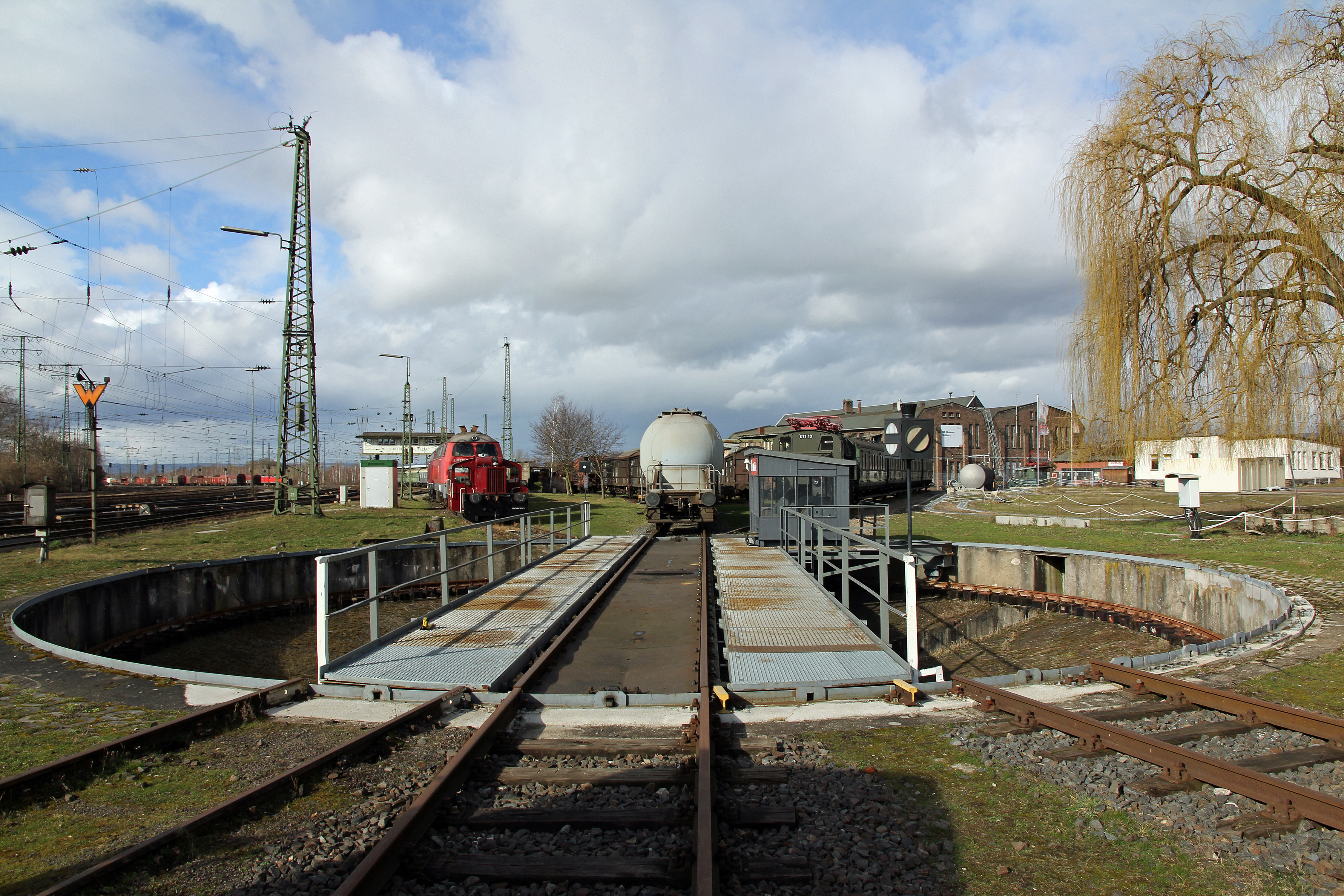 Bahnbetriebswerk Koblenz-Lützel in Koblenz